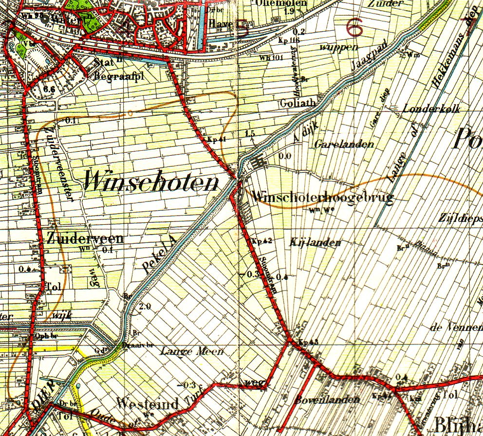 Topografical map of the upper part of the Pekel Aa in 1933. Explored in 1932, published in 1933